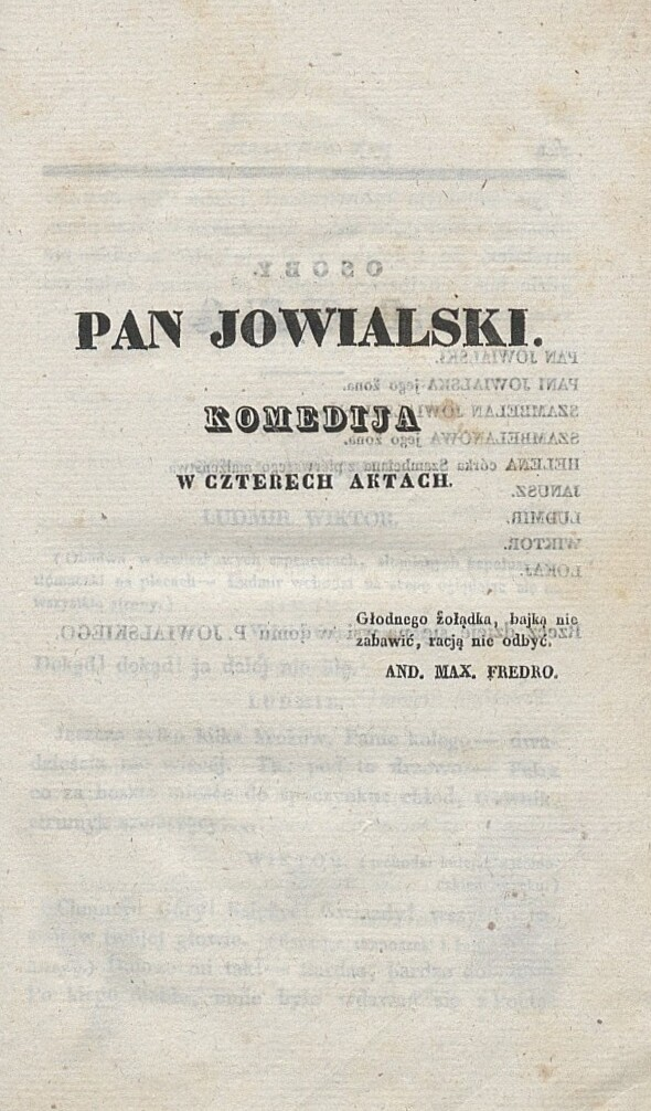 dramaty